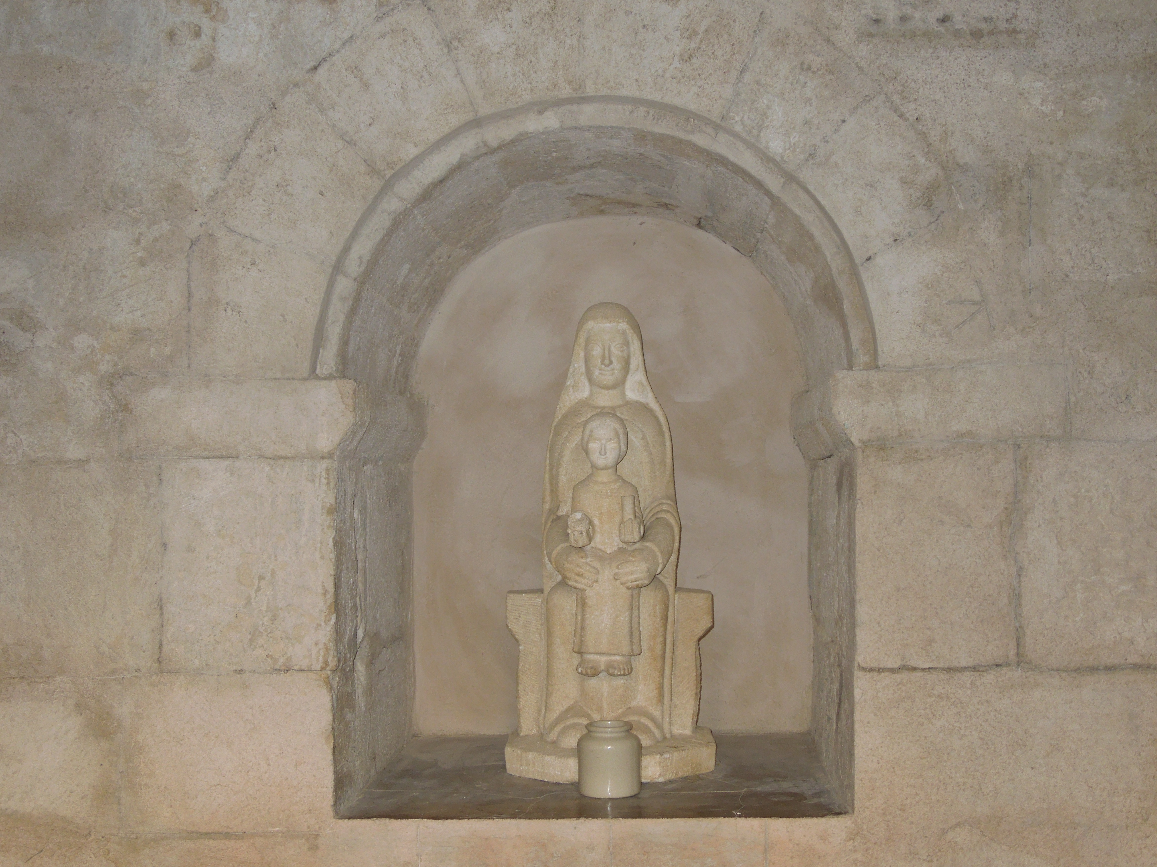 Abbaye de Sénanque